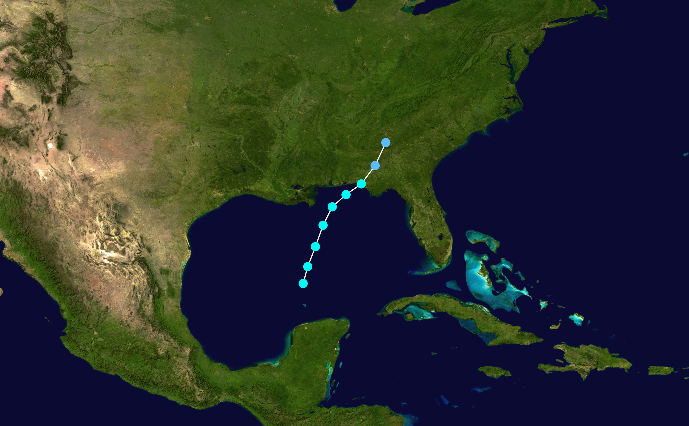 Tropical Storm Debbie (1957) track. Uses the color scheme from the Saffir-Simpson Hurricane Scale.